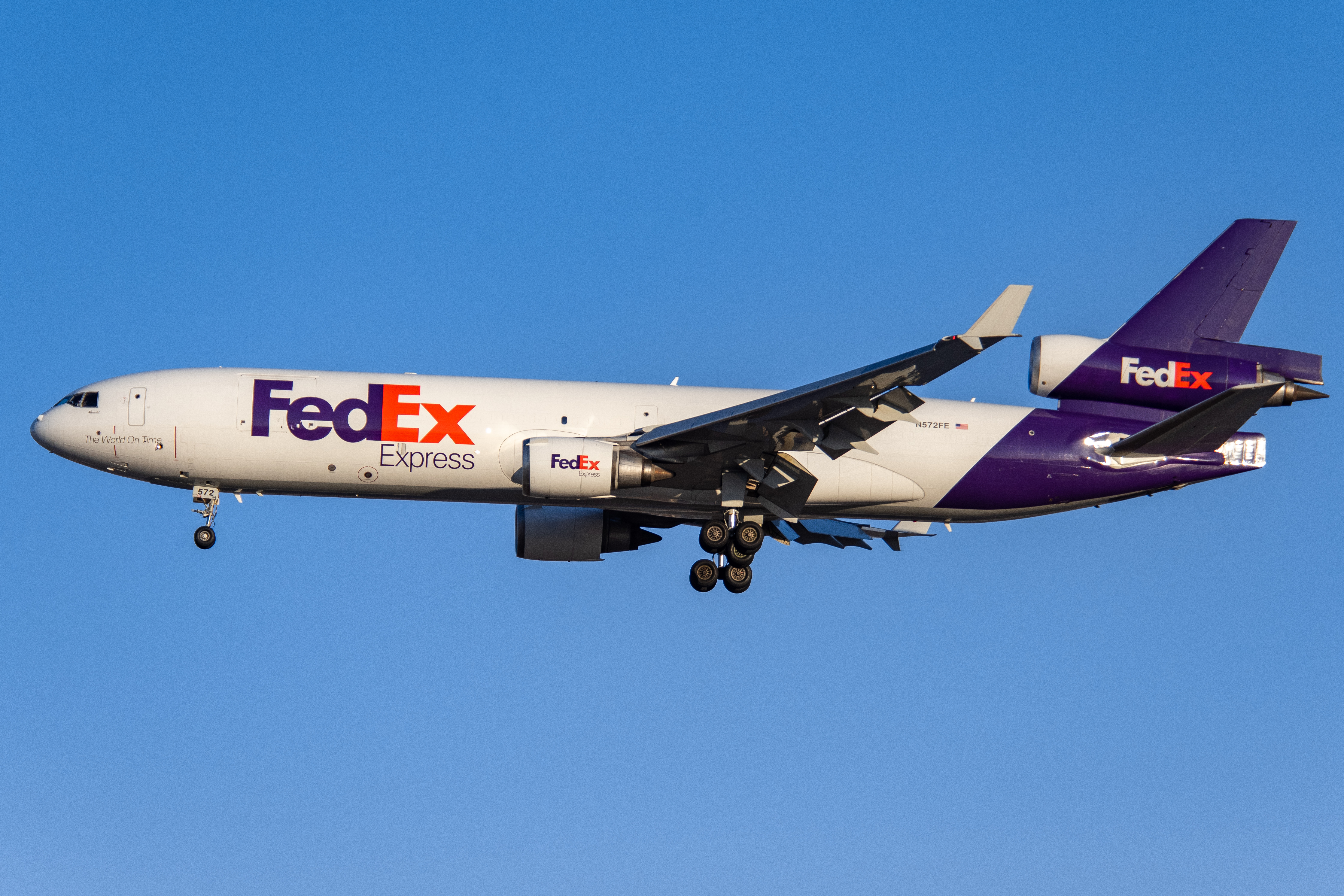 FedEx 5819 from Osaka. Wait a minute, this is a rare MD11ER(F)! Formerly Garuda PK-GIL and Varig PP-VQJ.